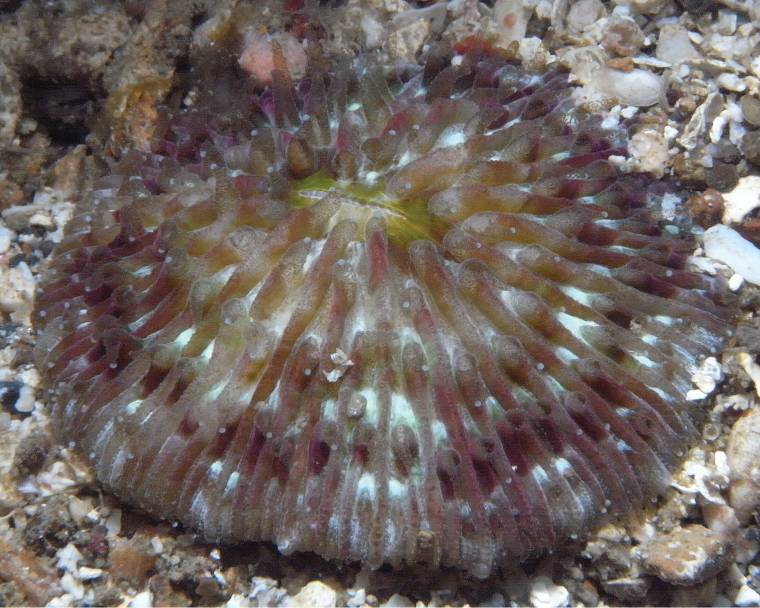 .Cycloseris boschmai sp. n. specimen showing transparent extended tentacles with white acrospheres at their tips; Indonesia, North Sulawesi, Lembeh Strait, Lobangbatu, February 2012.